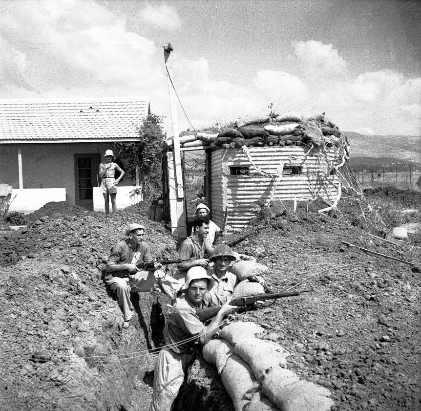 The defense of Beit Zera during the War of Independence (1948 or later)